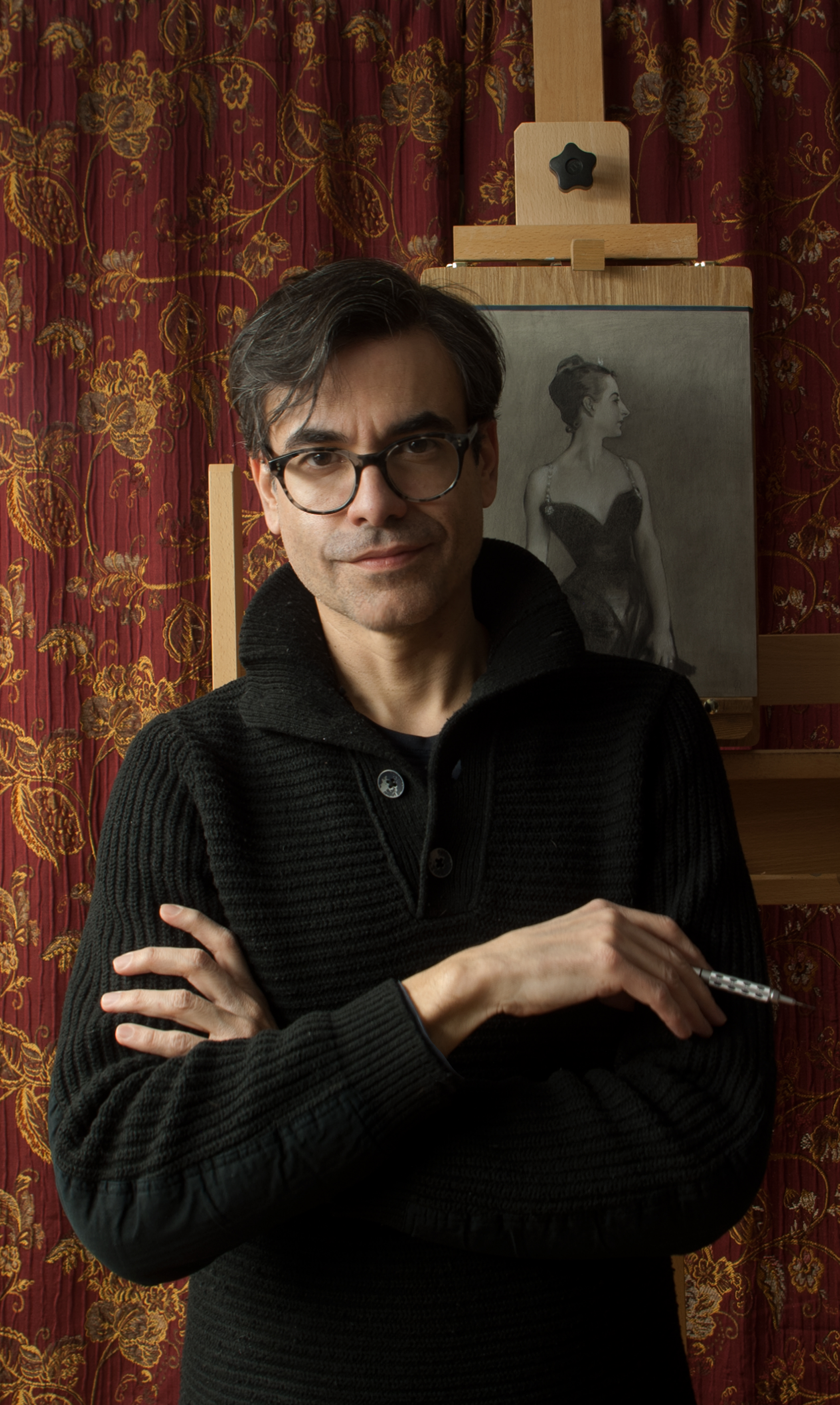 Photograph of painter Luis Alvarez Roure